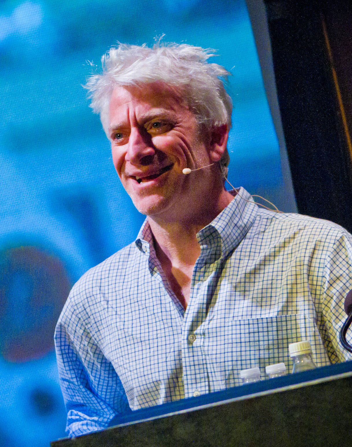 Emmy Nominee Larry Kaplow Visits VFS Emmy nominee and Writer’s Guild of America award winner, Larry Kaplow, visited VFS and spoke to a packed theatre of Writing for Film & Television students. Known for his writing work on the hit TV series House, Larry discussed the introspective exploration process involved in his writing, and encouraged students to pursue their dream, despite the challenges. Read more about Rob’s visit on the VFS blog. To learn more about VFS’s one-year Writing for Film & Television program, visit